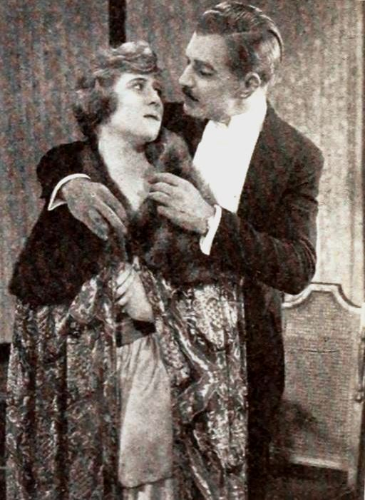 Still from the American drama film Rouge and Riches (1920) with Mary MacLaren and an unidentified actor, on page 85 of the January 31, 1920 Exhibitors Herald.